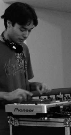 Picture taken of Emtee in a local Brazilian Hip Hop Festival.